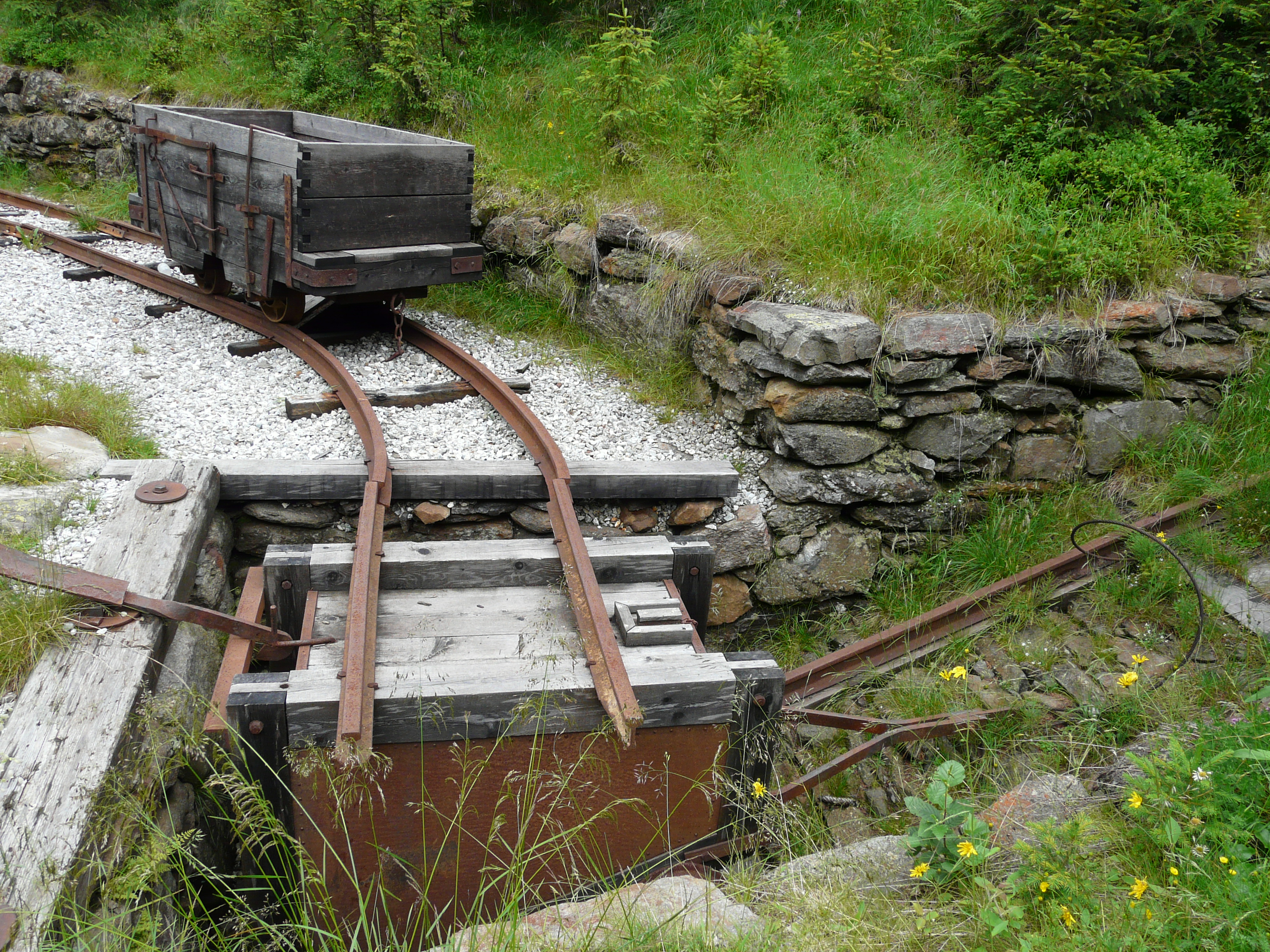 A reconstruction of the mining activities in the Ridnaun valley. The shown equipment is part of the Mining Museum of South Tyrol.